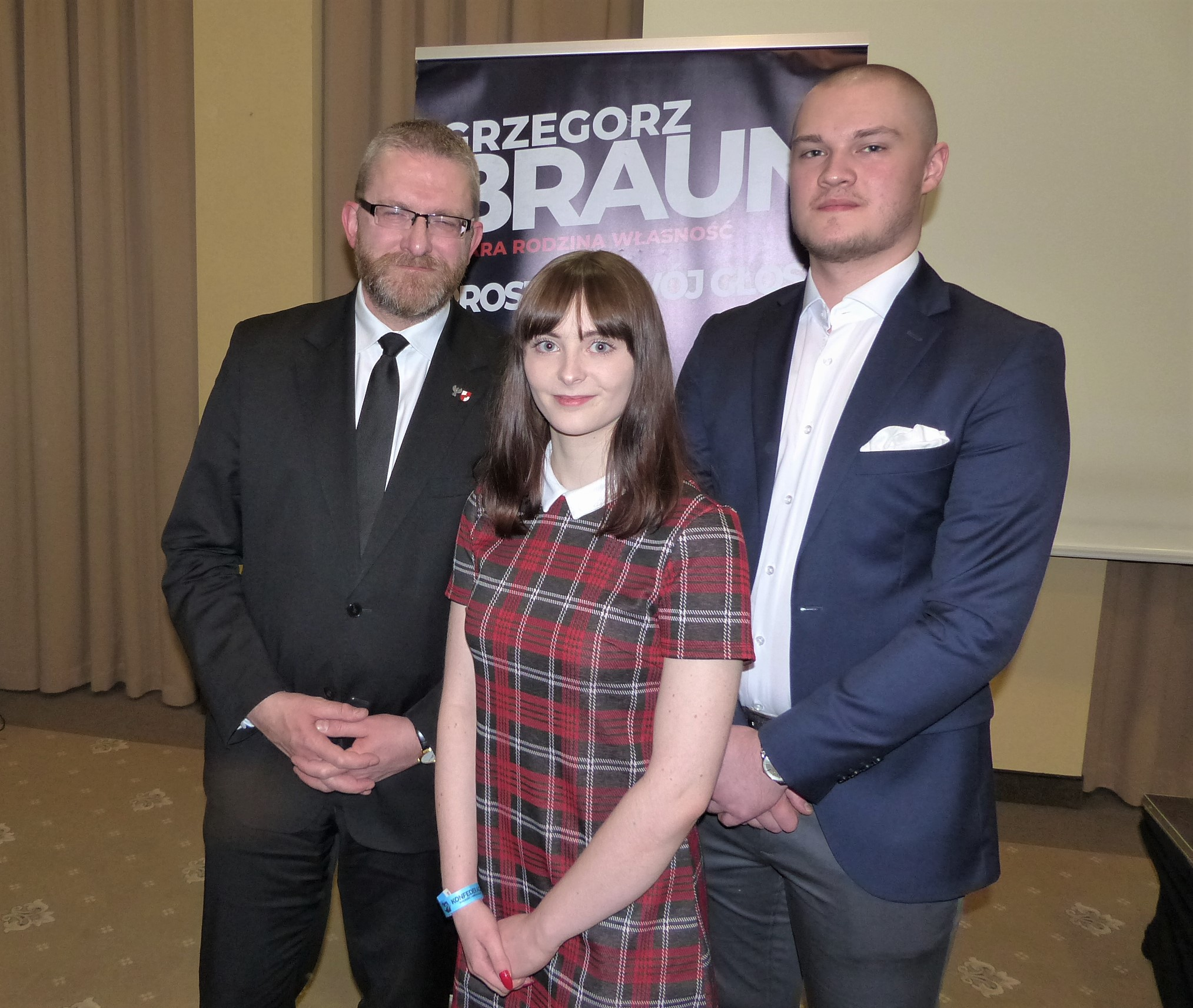 Grzegorz Braun - Polish director of documentary films, screenwriter, academic teacher, publicist and politician. Kielce, 14 December 2019 - regional presidential primaries of the Confederation.